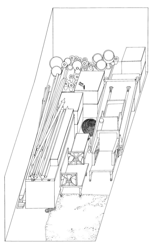 Tomb of Hetepheres I. Giza Necropois. Isometric drawing of the camber looking south from the pit with objects restored to their original positions.